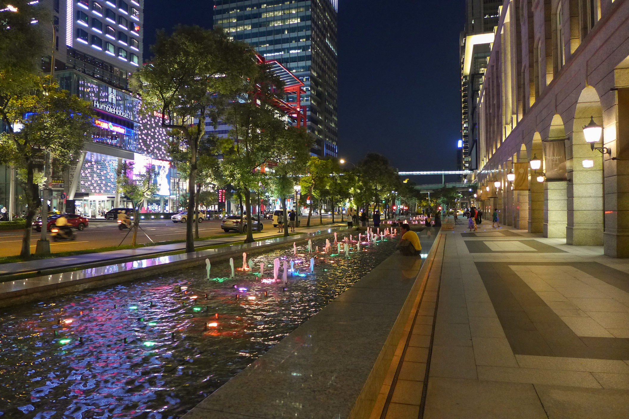 Night in Bellavita outside fountain.